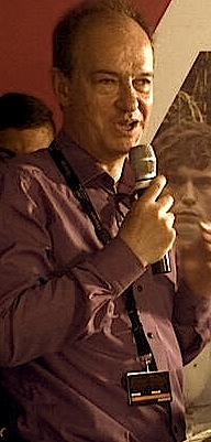 Peter Bradshaw, speaking at the Cannes Film Festival, 2013